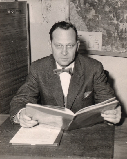 Photograph of the Finnish mayor Olavi Piha (1911–1995).